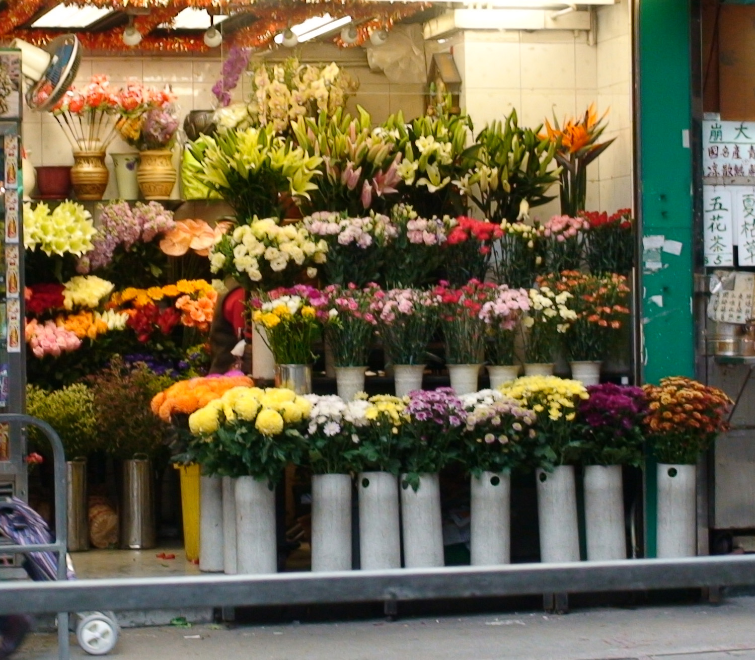 A flower shop (花擋) in Yau Ma Tei , Hong Kong